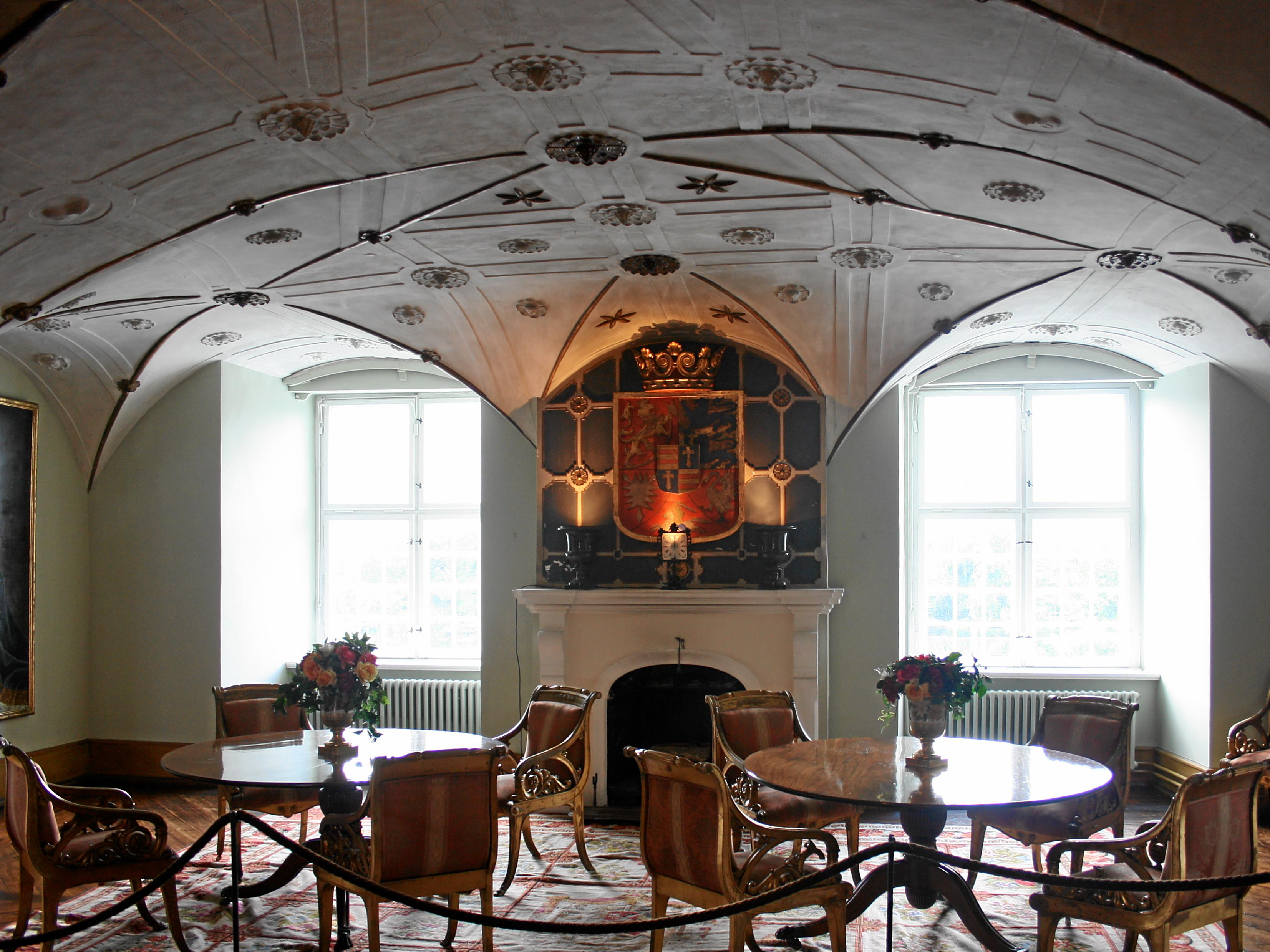 Glücksburg, Germany. Glücksburg castle, red saloon.